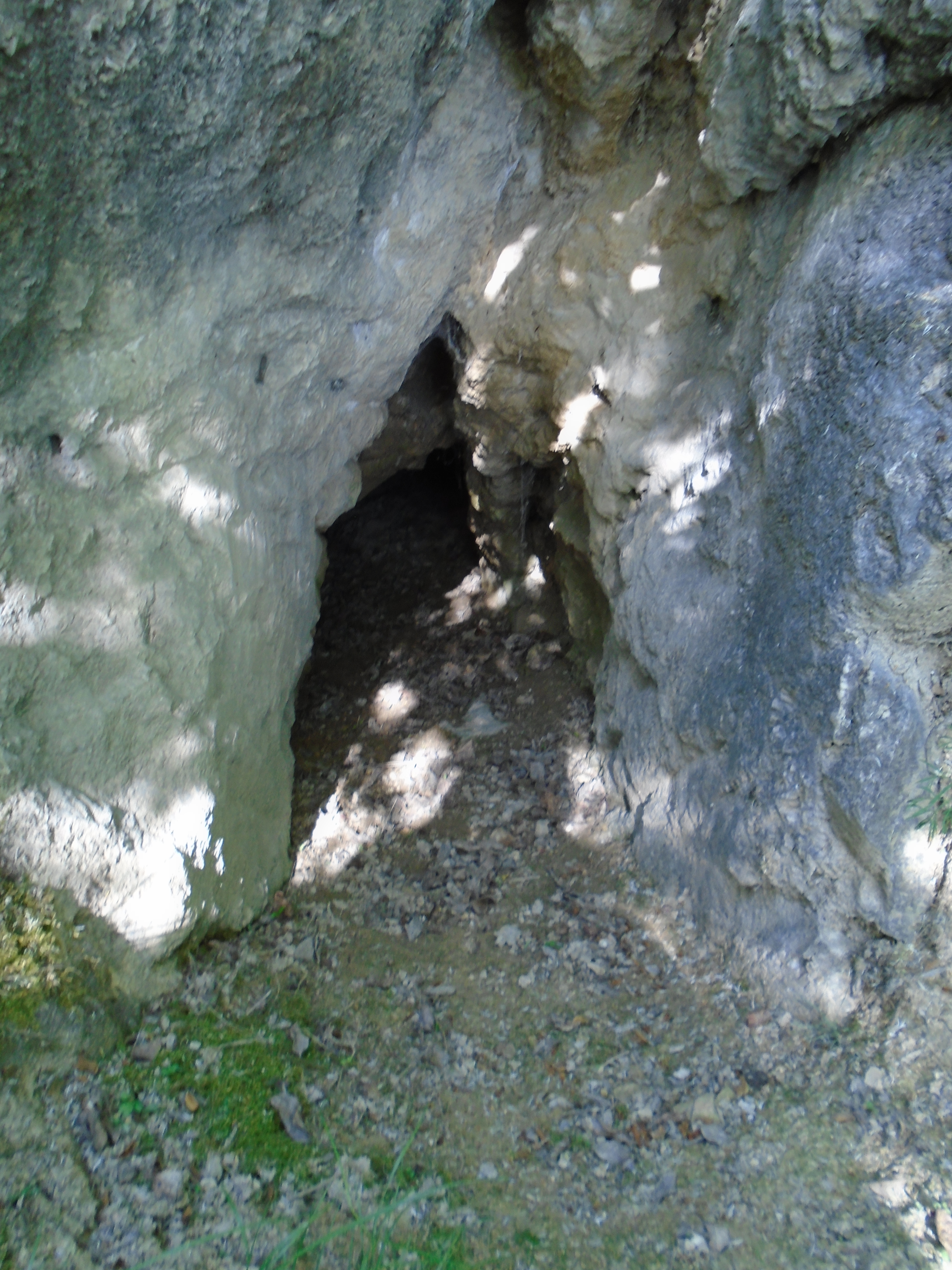 Lower entrance of Barit Cave.